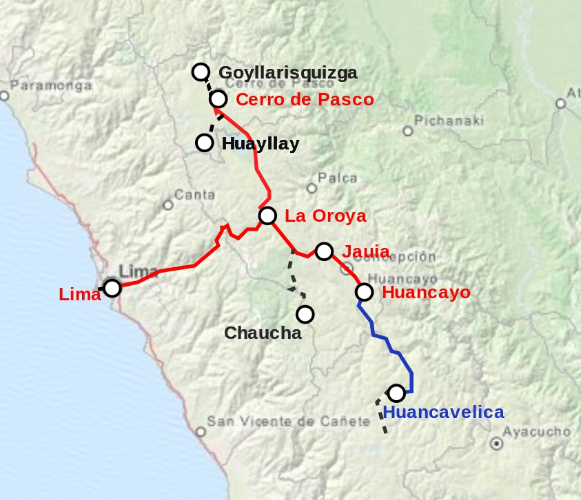 Map of railway network of Ferrocarril Central in Peru (red lines). Abandoned tracks are black, and the blue line is the Huancayo - Huancavelica line (state owned).